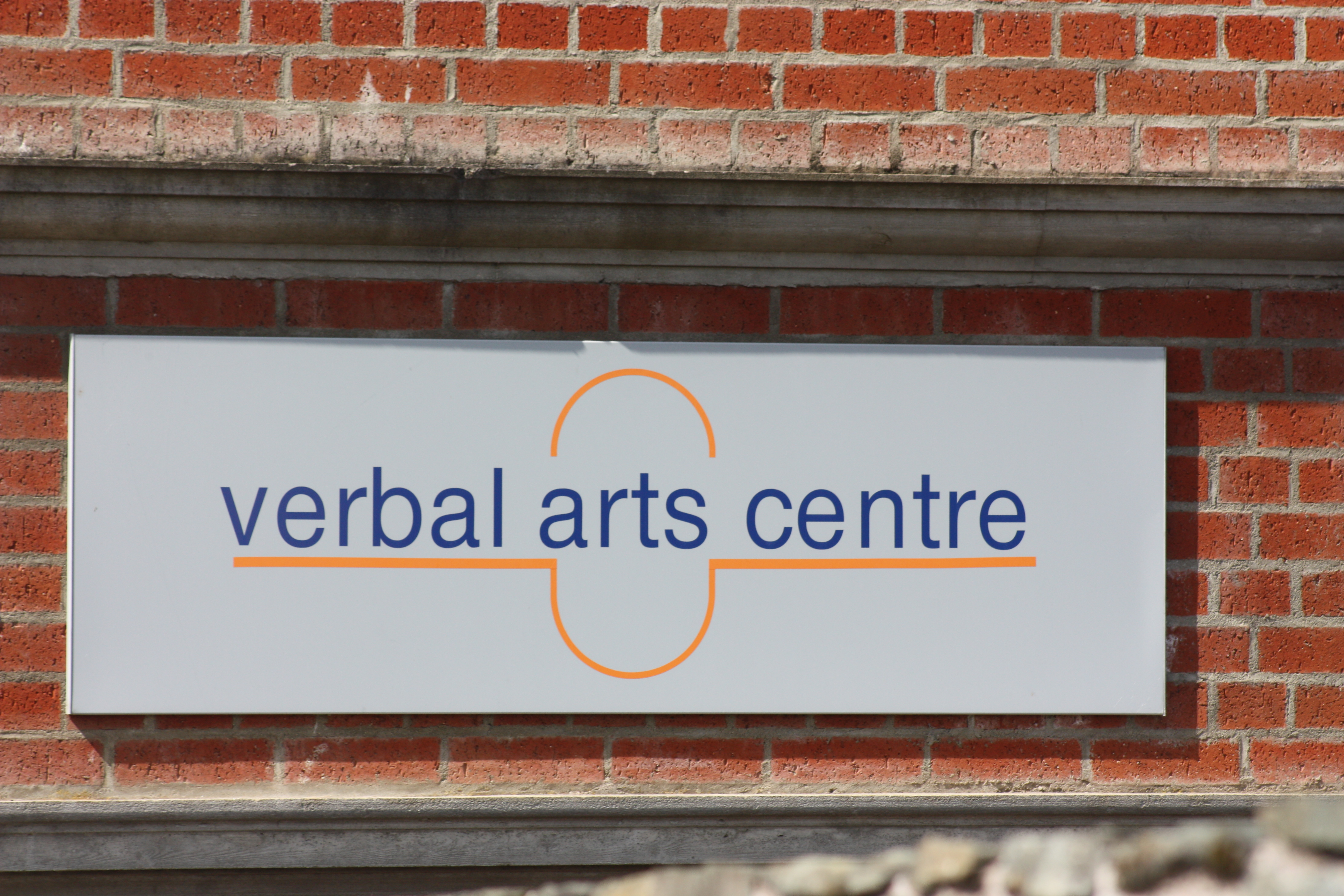 Verbal Arts Centre, Bishop Street, Derry, County Londonderry, Northern Ireland, August 2009